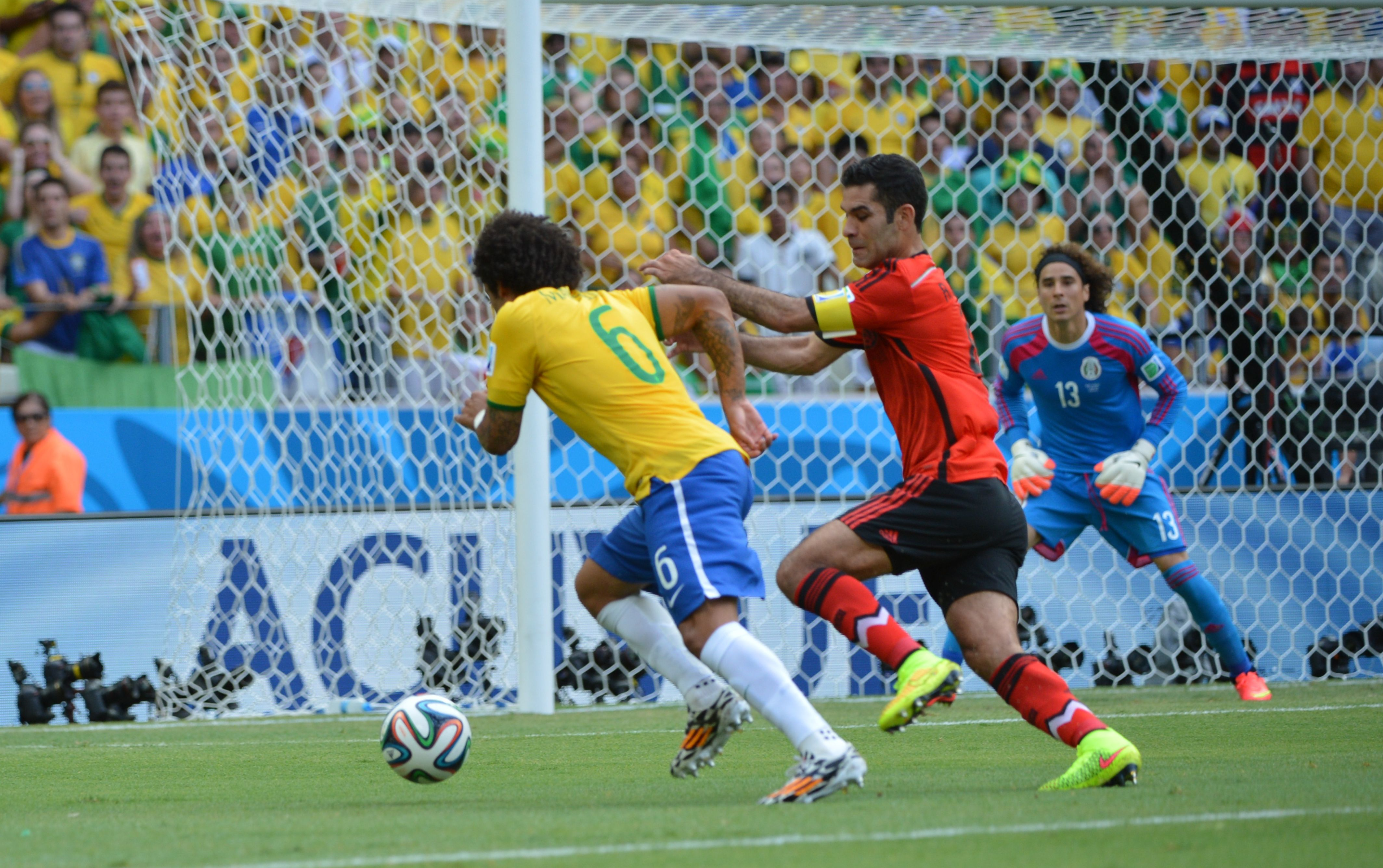 On the day of the keeper Ochoa, Brazil is on the 0:0 in Fortaleza